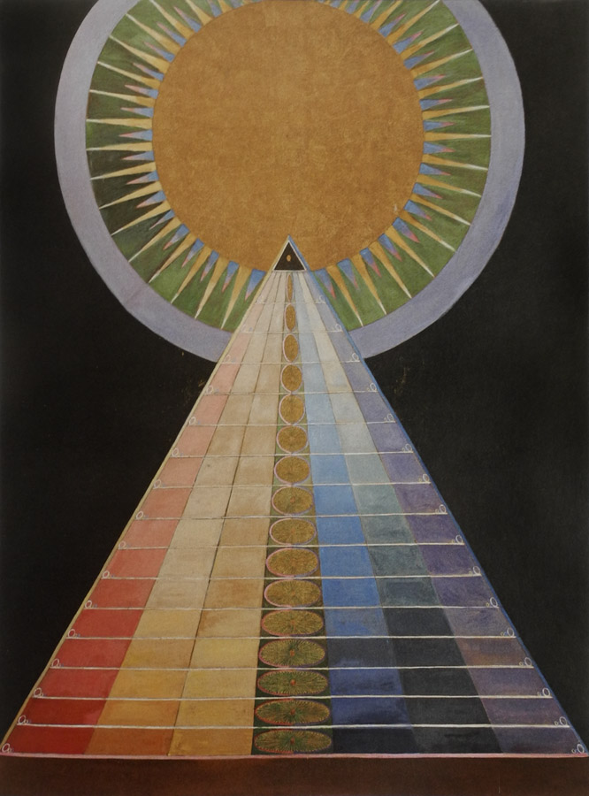 Hilma af Klint